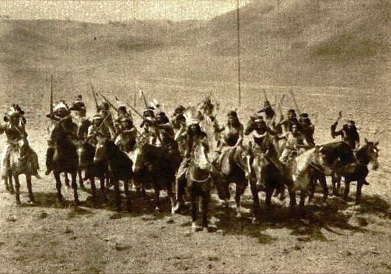 Still from the American western film serial Winners of the West (1921), on page 41 of the December 1921 Screenland.